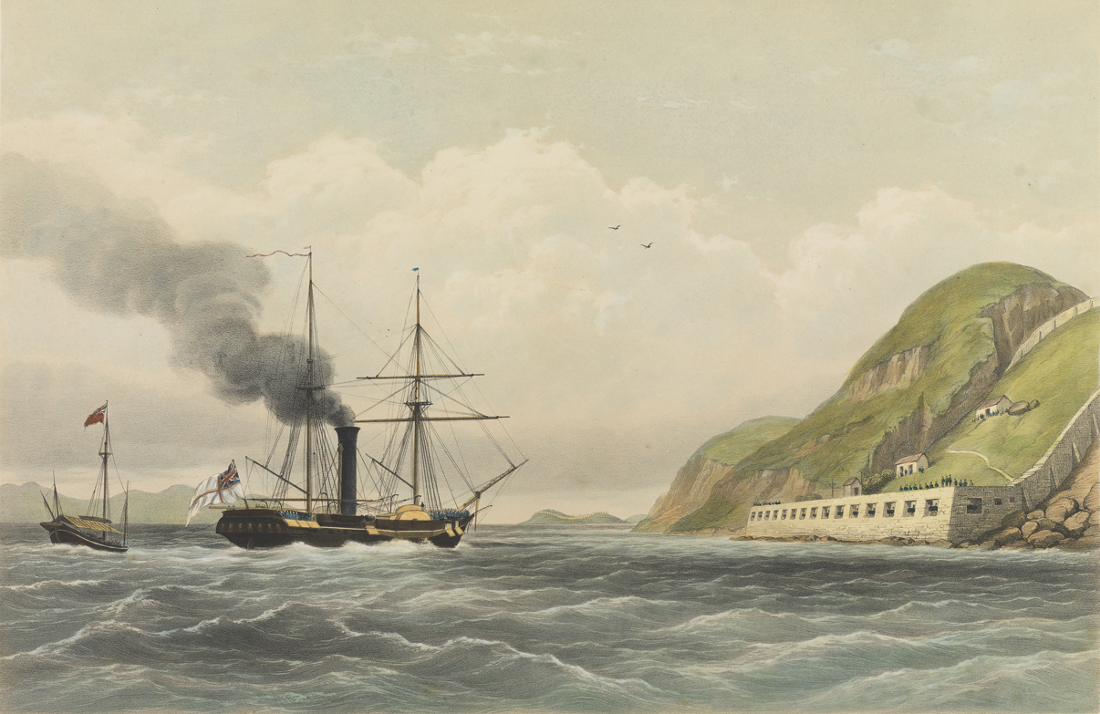 The Return to Hong Kong. The Vulture Passing the Battery Upon Tygris Island. The image shows the Vulture, with a lorcha in tow, passing the Weiyuan Battery on Anunghoy Island in the Bocca Tigris, 9 April 1847.